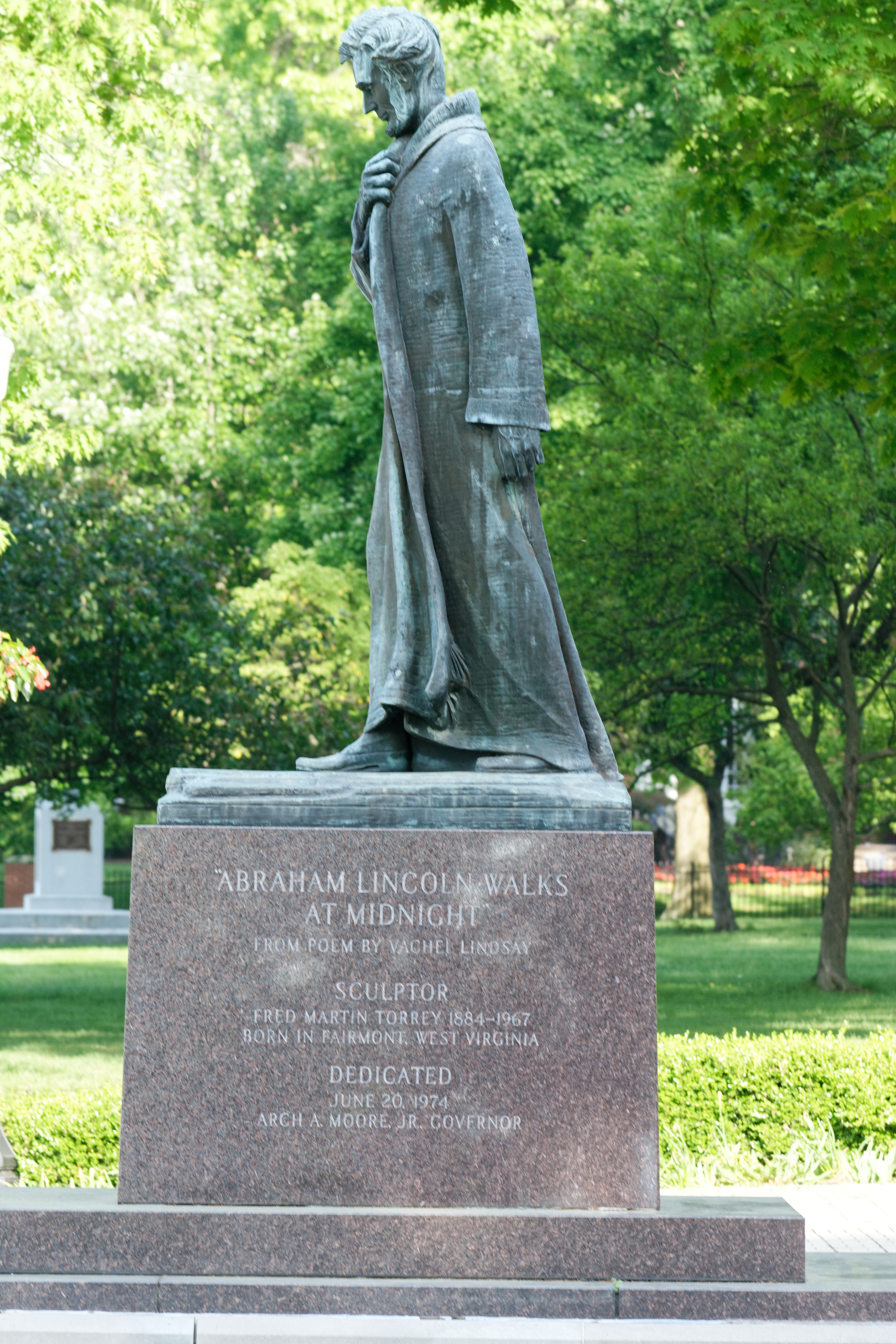 West Virginia State Capitol, Charleston, West Virginia, U.S. Lincoln Walks at Midnight, statute by Fred Martin Torrey in 1933.